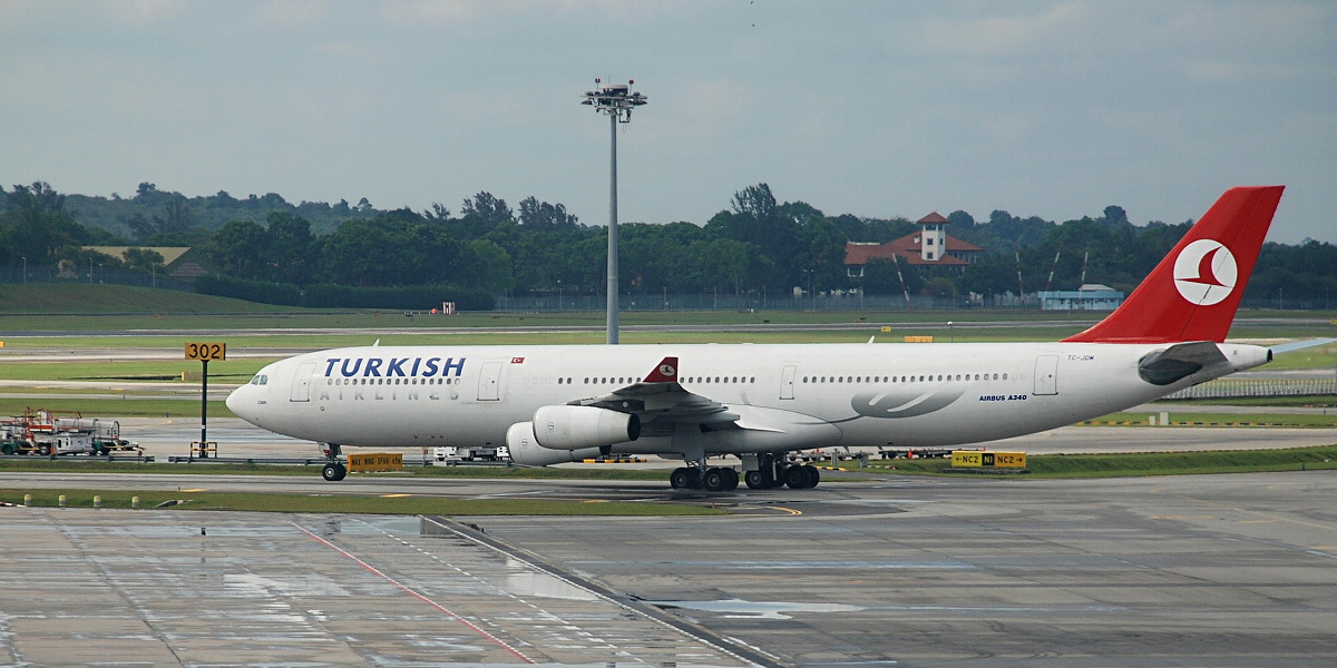 Turkish Airlines Airbus A340-300 (TC-JDM) at Singapore Changi Airport.